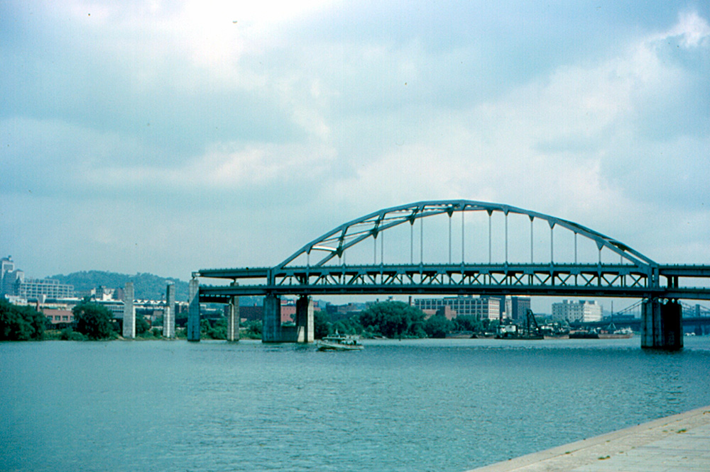 Pittsburgh had a real "Bridge to Nowhere." The main span of the Fort Duquesne Bridge over the Allegheny River was completed in 1963. Land for the approaches had not been acquired, so the bridge stayed like this for five years. The bridge was finally completed in 1968. It now carries Interstate Highway I-279. There are two decks of traffic.